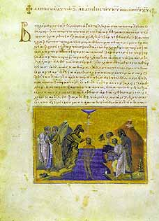 The Baptism, Menologion of Basil II, p. 299, late 10th or early 11th cent.